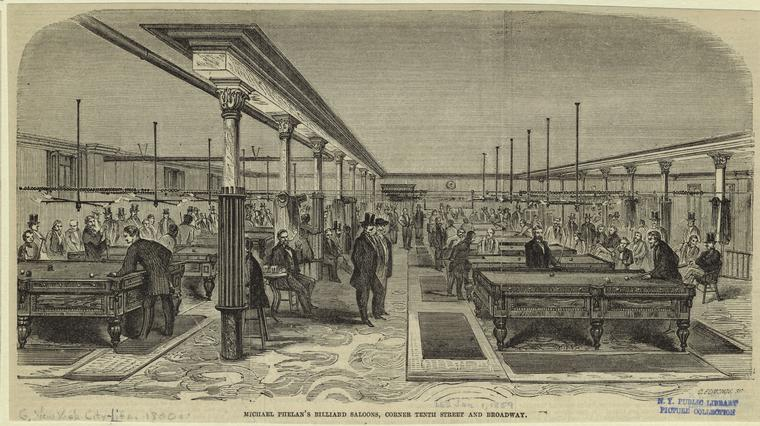 Historic black and white print depicting Michael Phelan's billiard saloon in New York City, originally published in Leslie's, a monthly magazine.